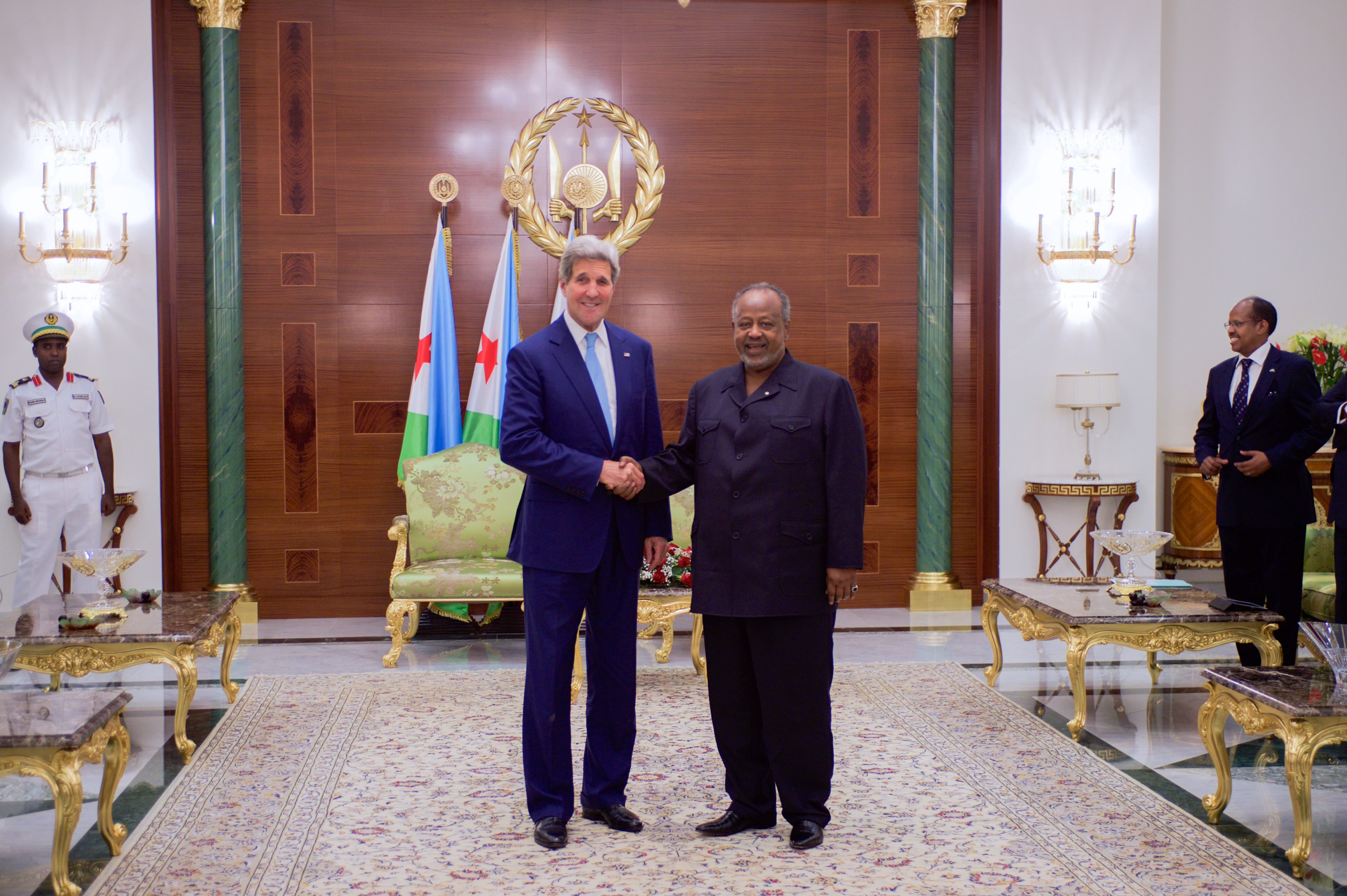 U.S. Secretary of State John Kerry poses with Djiboutian President Ismail Omar Guelleh after he arrived at the Presidential Palace in Djibouti, Djibouti, on May 6, 2015, for a bilateral meeting. [State Department photo/ Public Domain]